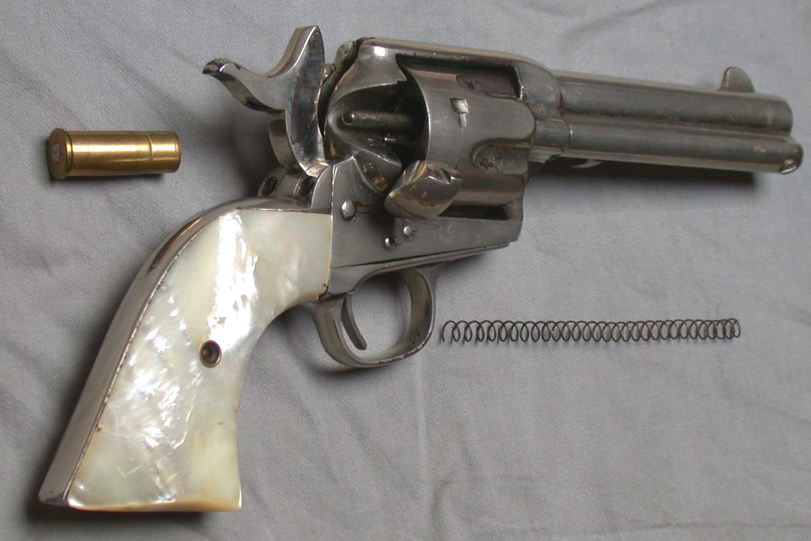 Colt SAA loading gate